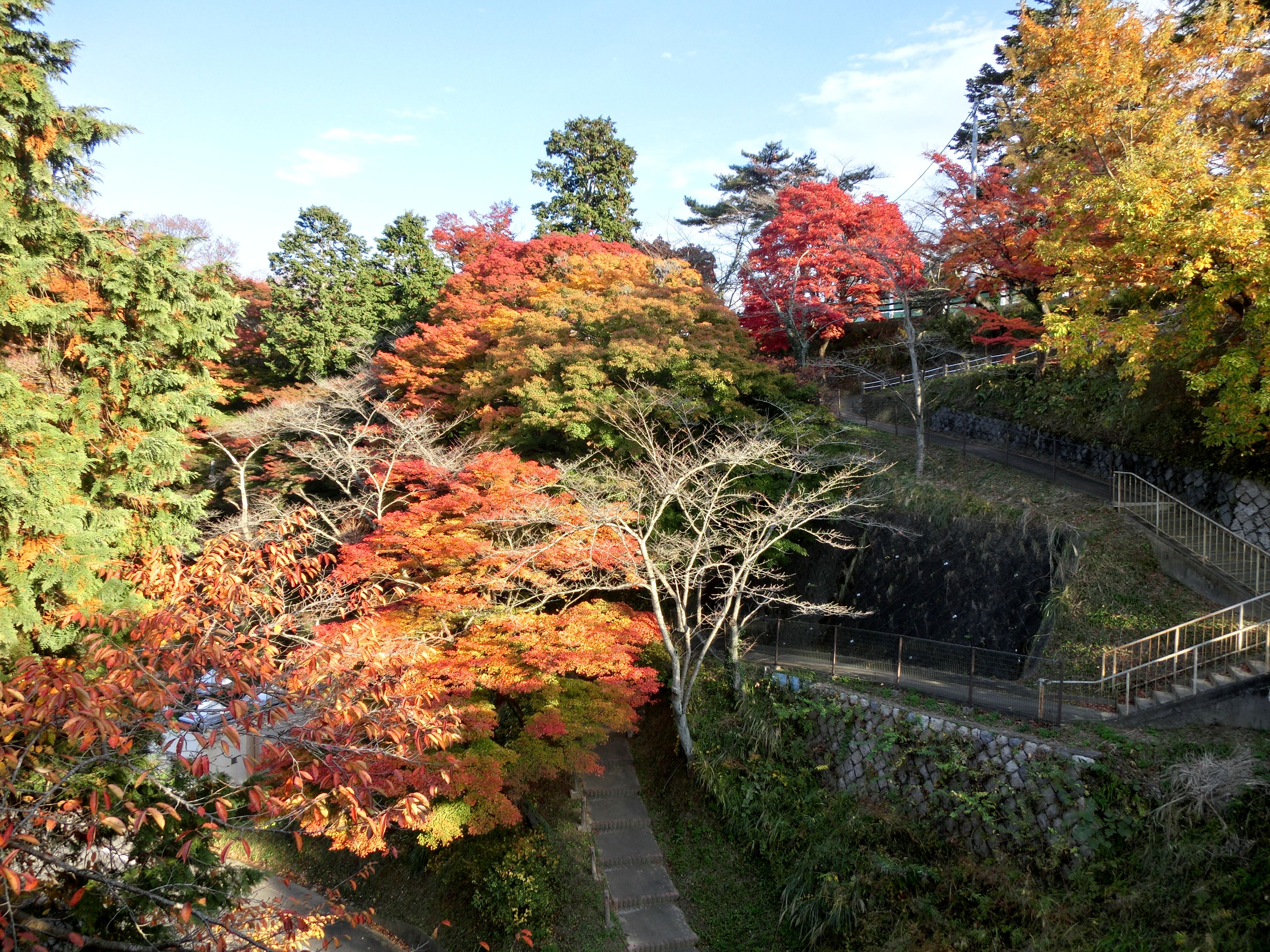 Matsugaoka Park in Iwaki City, Fukushima Prefecture, Japan